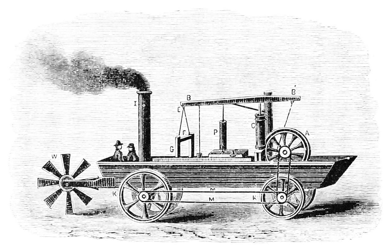 Oructor amphibolis 1804